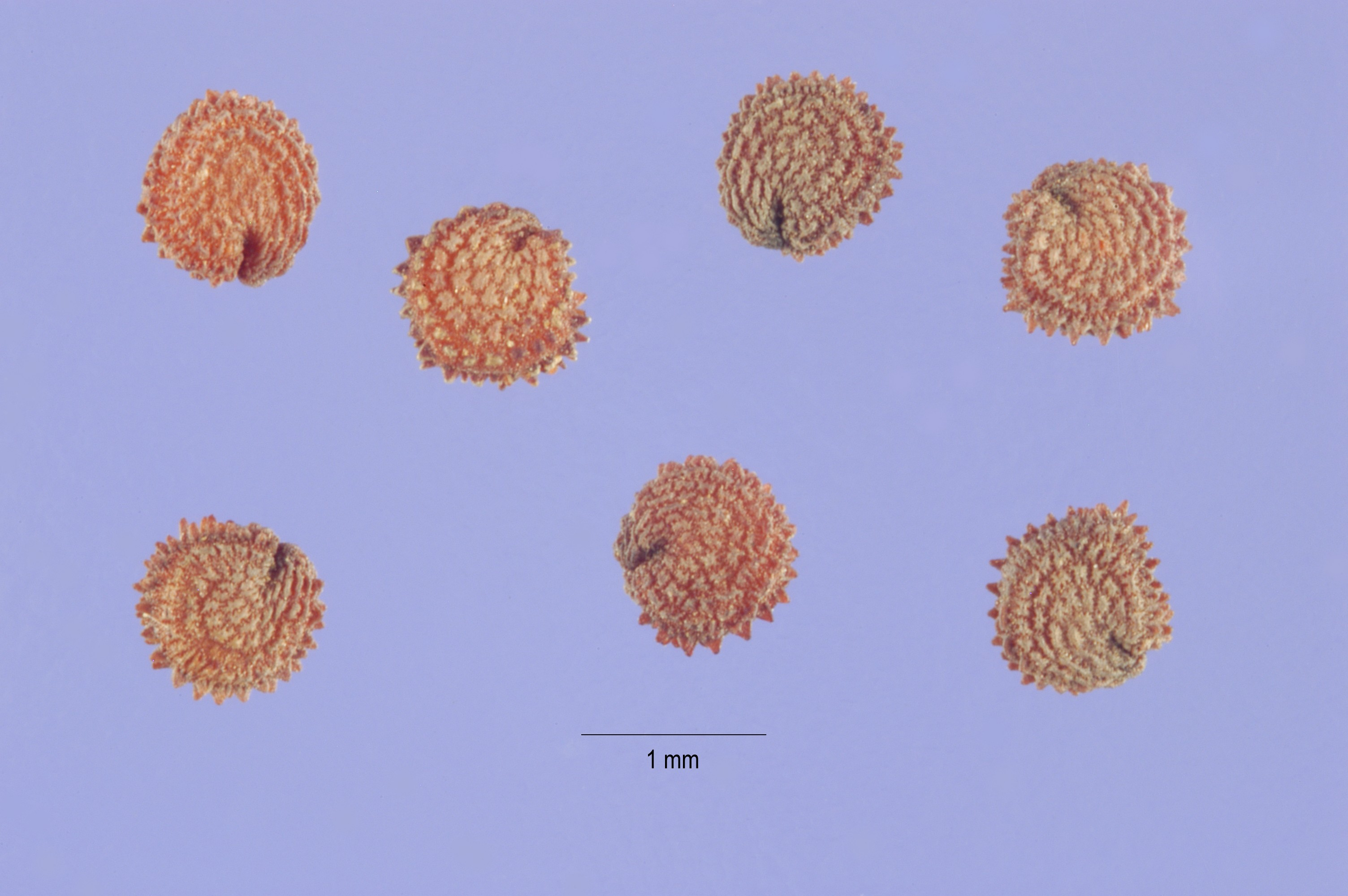 seeds of Stellaria media